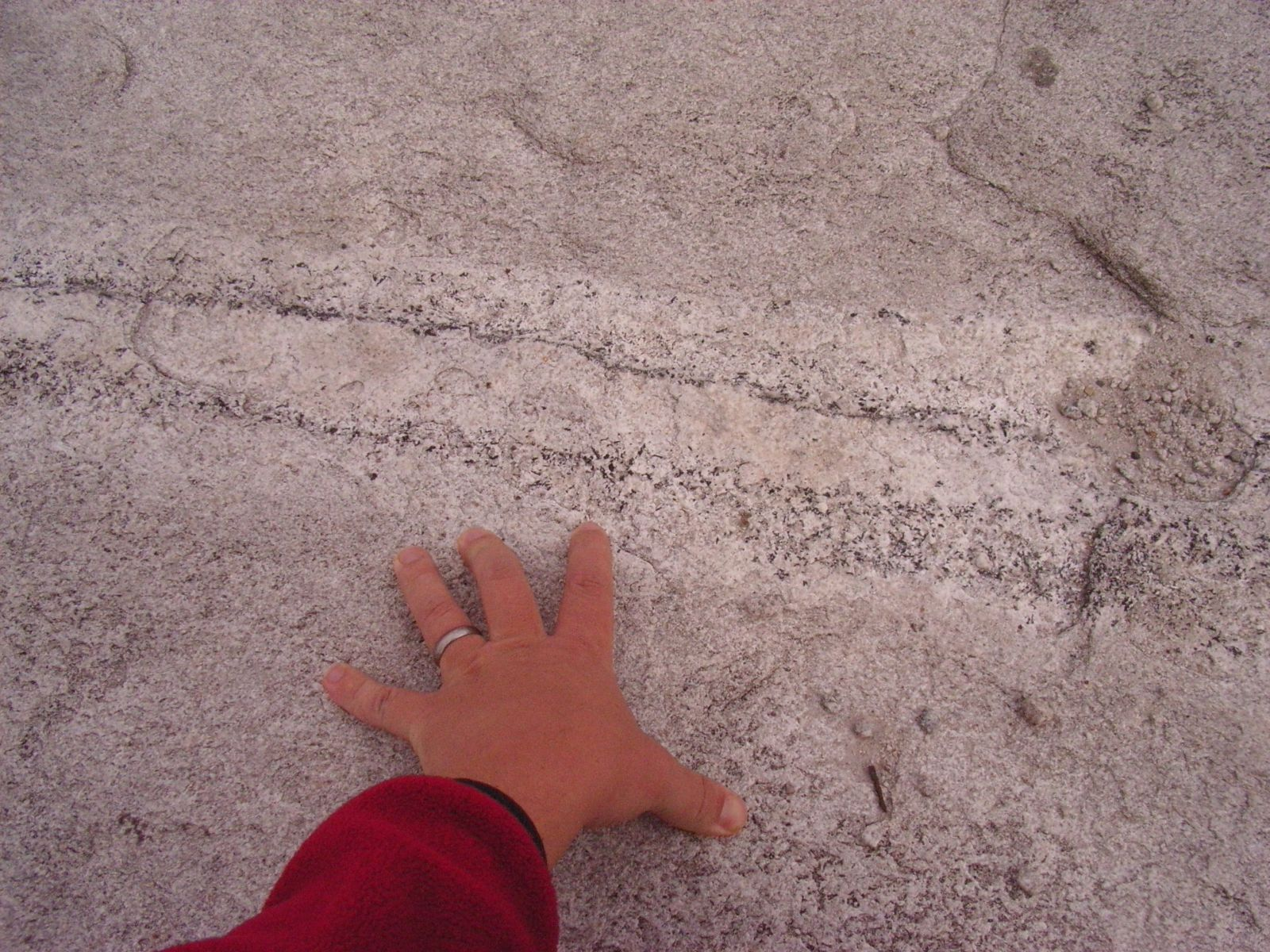 Zones of alteration in a metagranite. This image detailes pneumatolytic or metasomatic alteration of the metagranite at Stone Mountain which manifests as sodic plagioclase, amphibole and tourmaline rich bands. Location: Stone Mountain, Georgia, U.S.A.